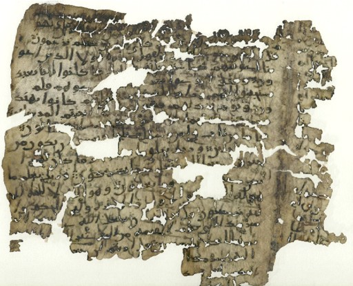 Qur'anic Manuscript written in Mekkan script. Verses 61 through 73 of Surah al-Qasas. Location: Austrian National Library, Vienna.